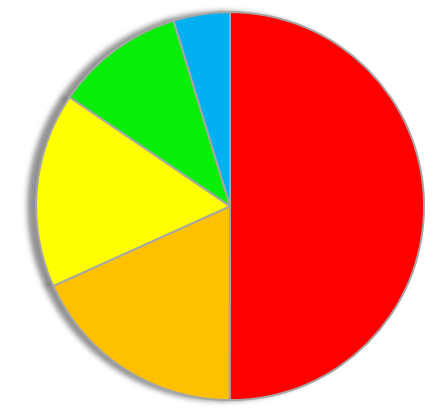 Expressed as a pie chart in the Aichi gubernatorial election in 2011, the number of votes for each candidate. explanatory notes ■ - Hideaki Omura ■ - Shigetoku Kazuhiko ■ - Shinichiro Misono ■ - Michiyo Yakushiji ■ - Toshihiko Doi